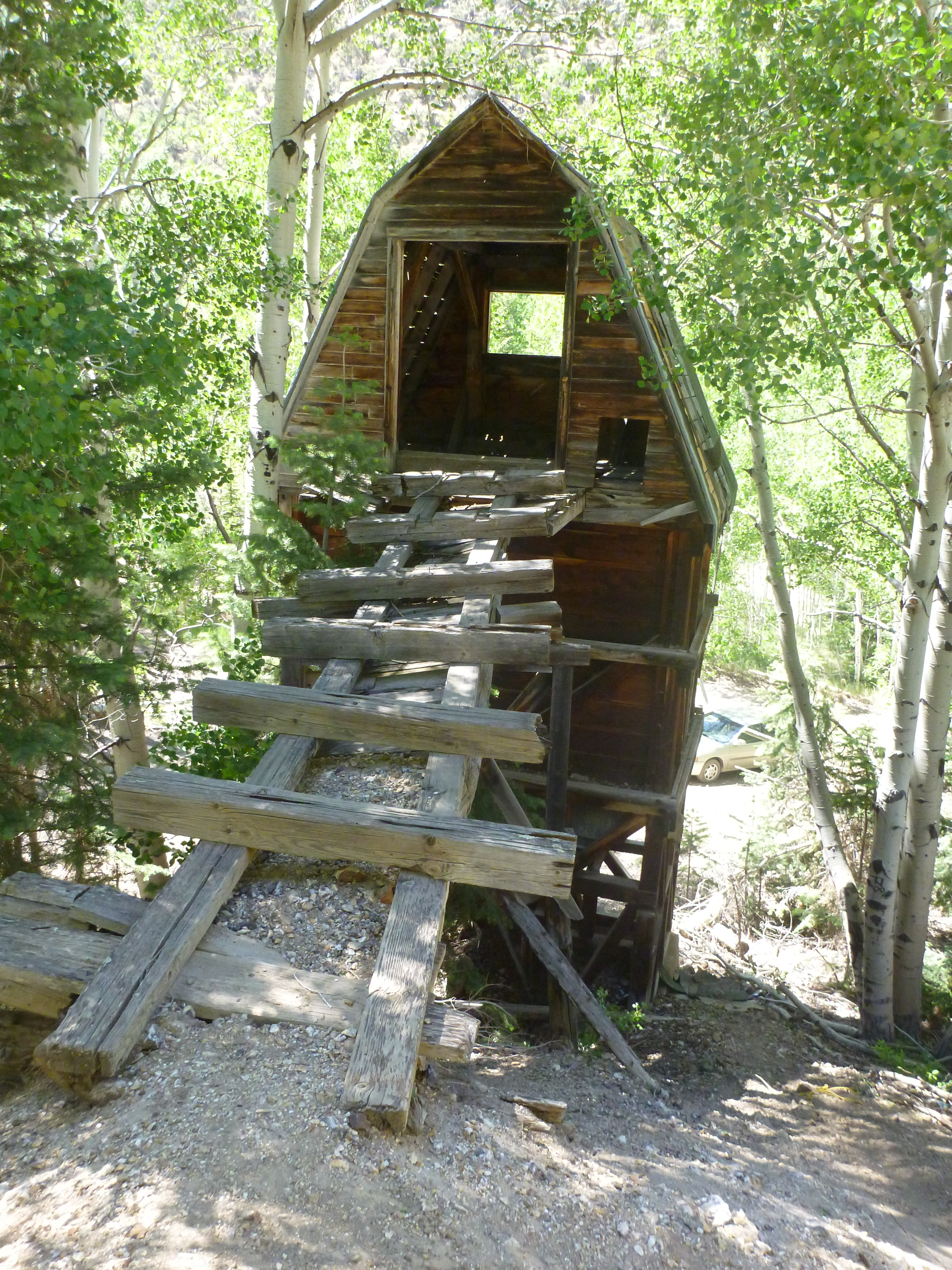 Stop 8 - Bully Boy Mill